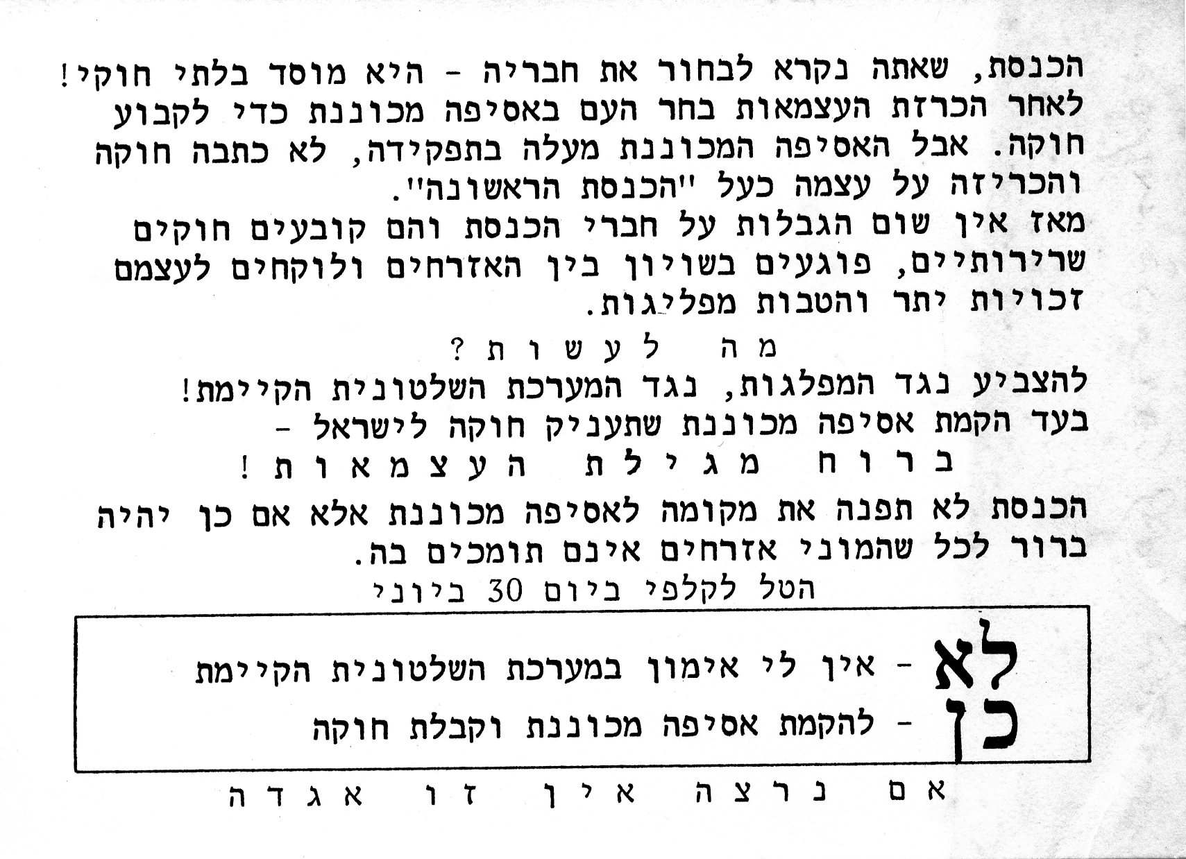 A leaflet which was drafted by Benny Peled for the the tenth Knesset (Israeli legislative election, 1981). The page, the size of a ballot slip, was distributed as a substitute to genuine ballot slips.